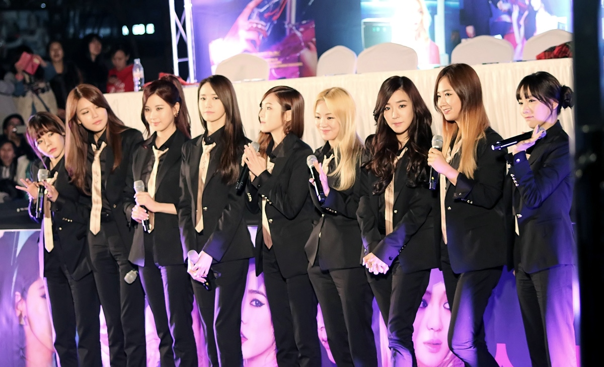 Girls' Generation at the Cheonggye in March 16, 2014.